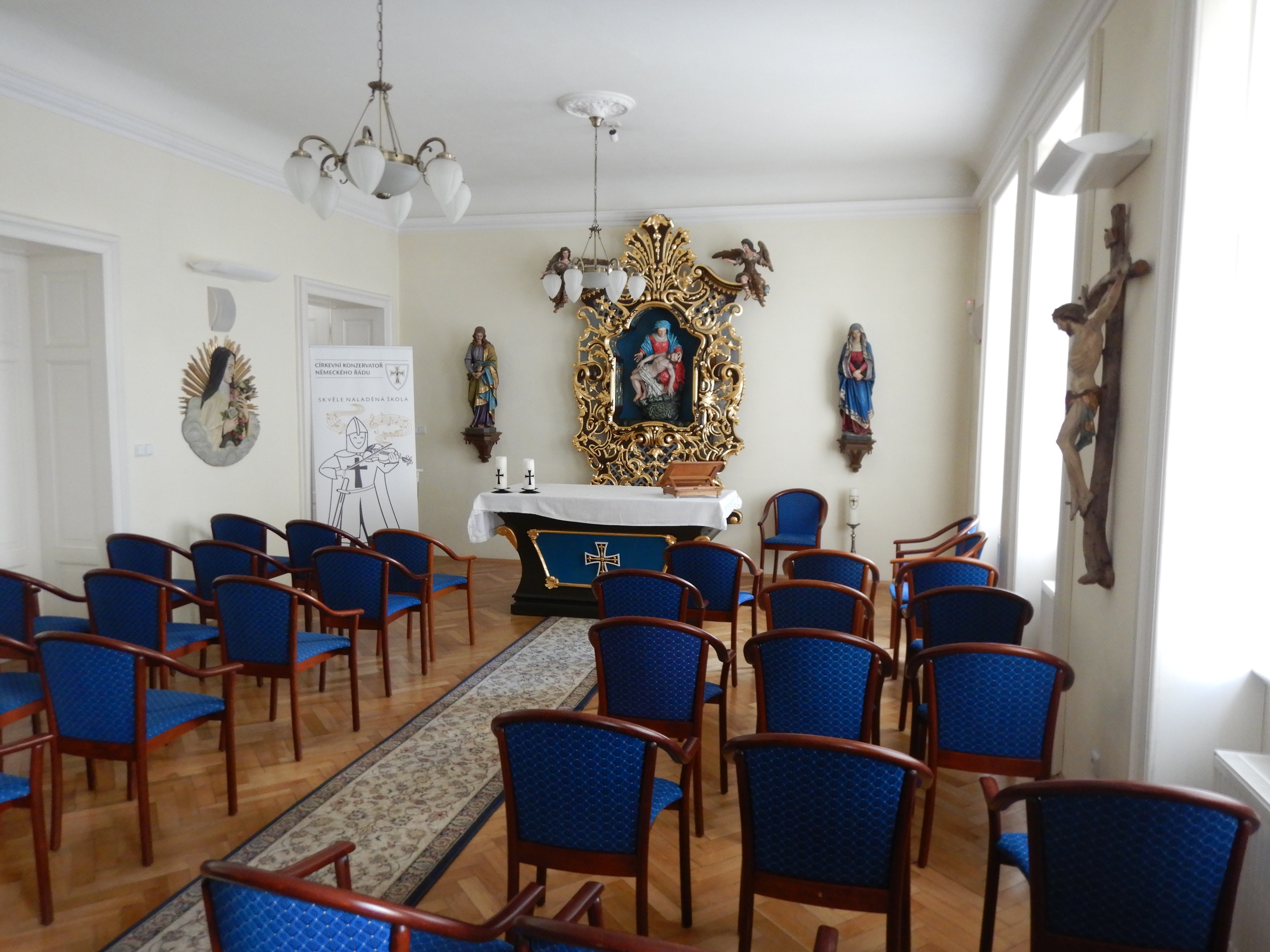 Our Lady of Sorrow chapel at Religious Gymnasium of the Teutonic Order in Olomouc.